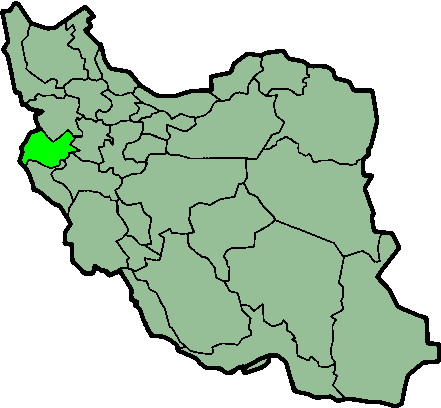 Province of Kermanshah, Iran